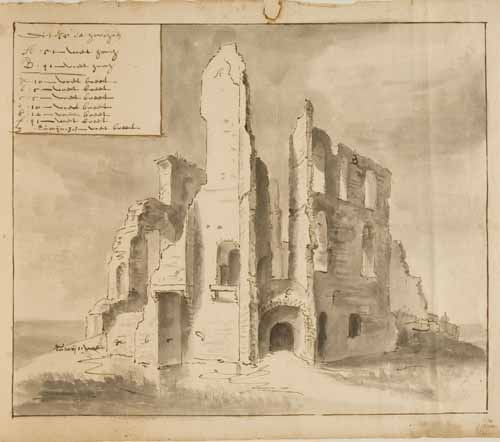 Ruines of house Rossum